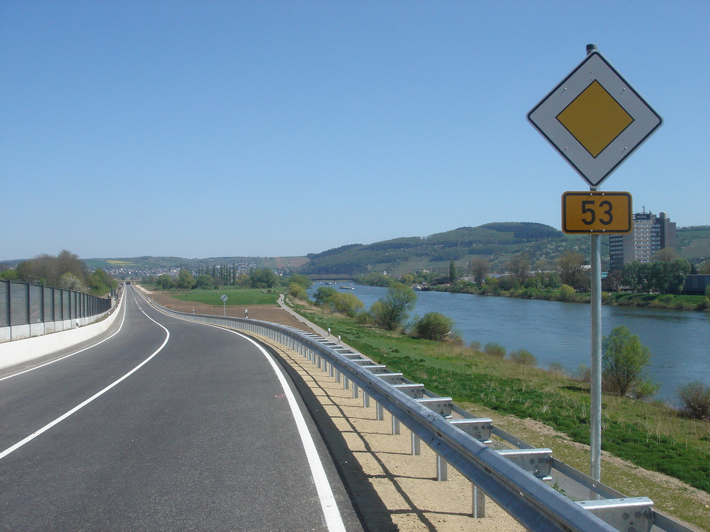 The German Federal Highway 53 at Trier-Biewer. The Moselle River is visible on the right.